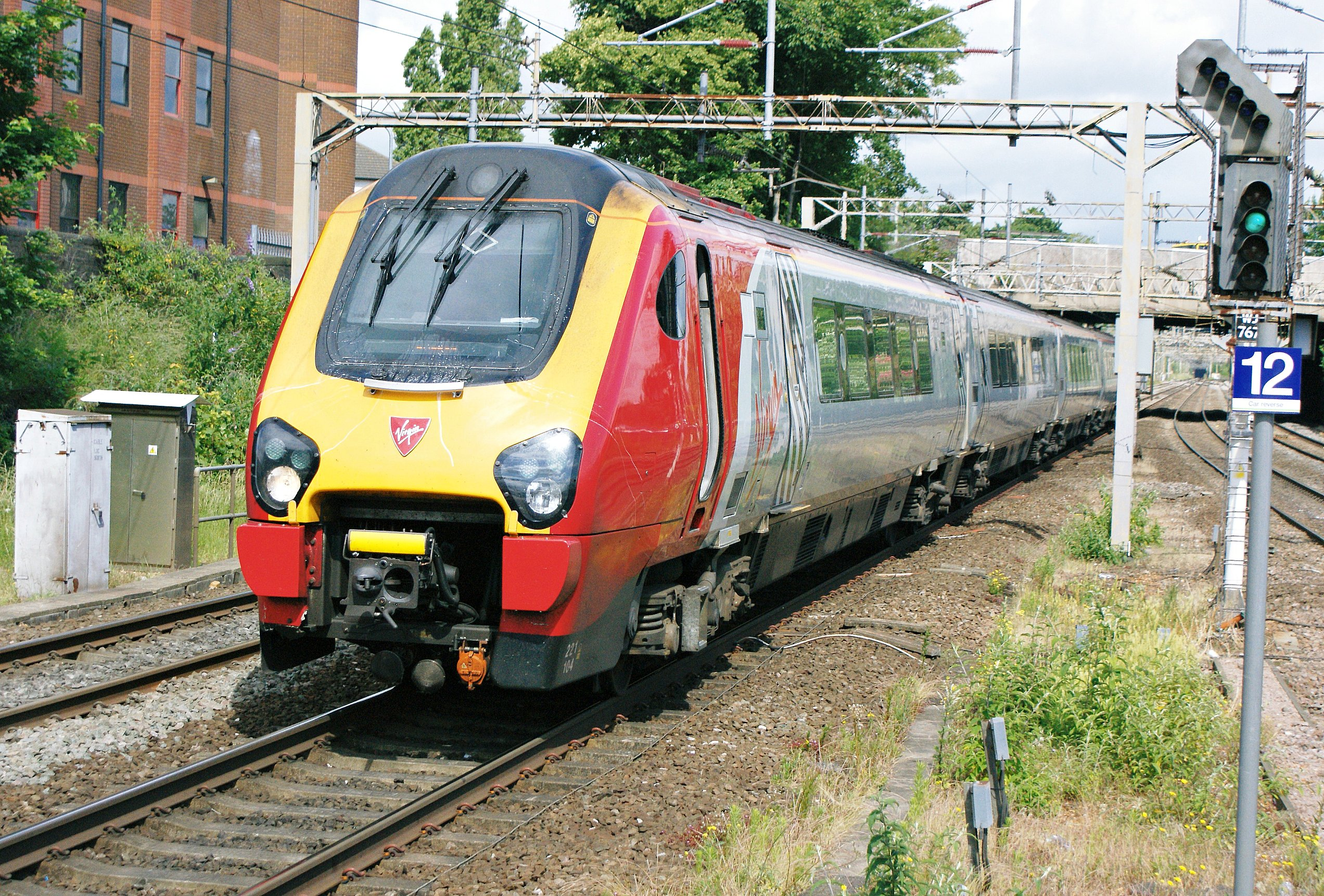 Bombardier (Wakefield & Brugge) Class 221 "Super Voyager" 5-car dmu No.221 104 "Sir John Franklin" of Virgin West Coast arriving at Watford Jct. on a Llandudno - Euston service, 07/08.